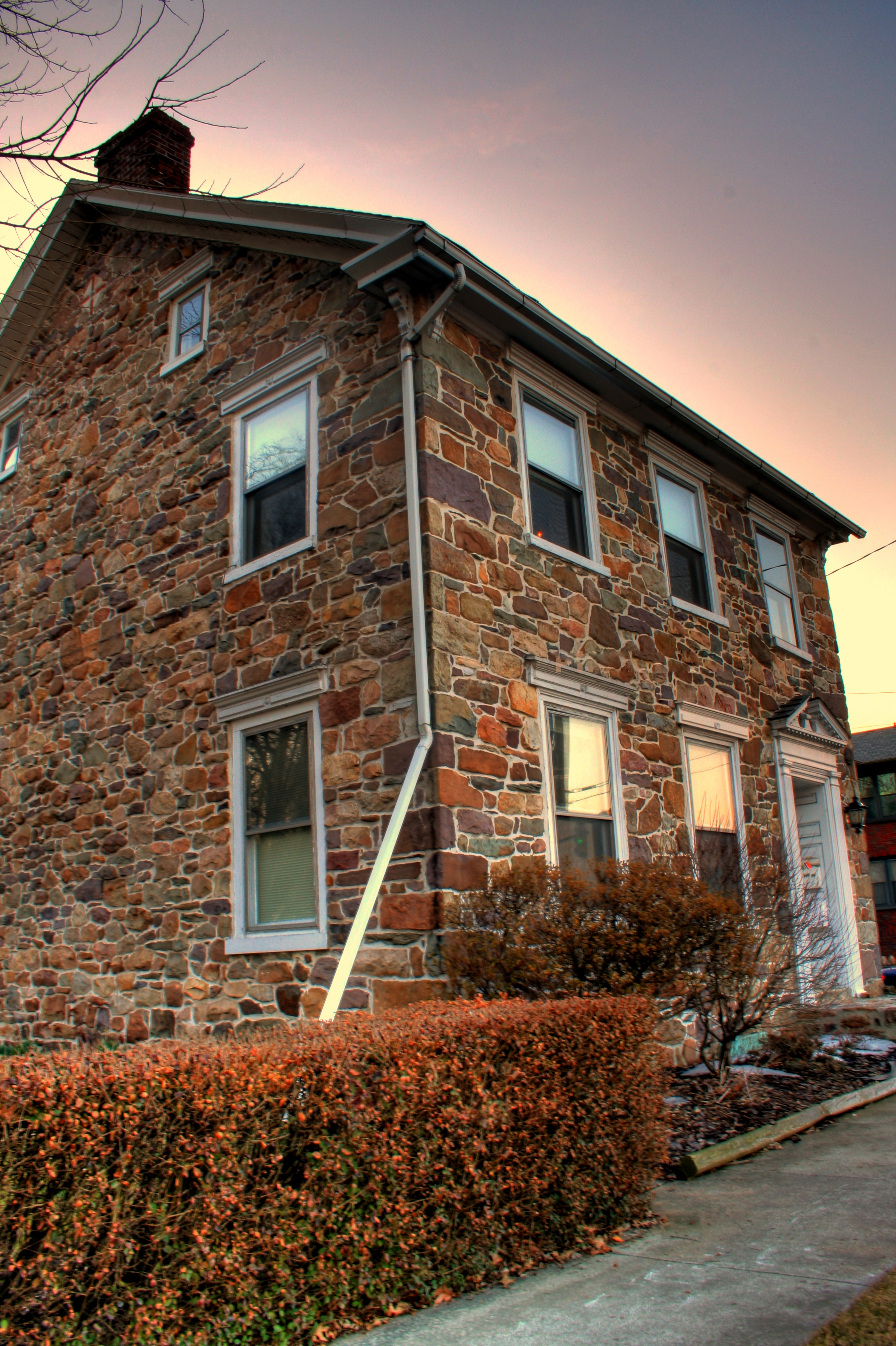 2007 photo of the house built by John Wormley around the year 1800.